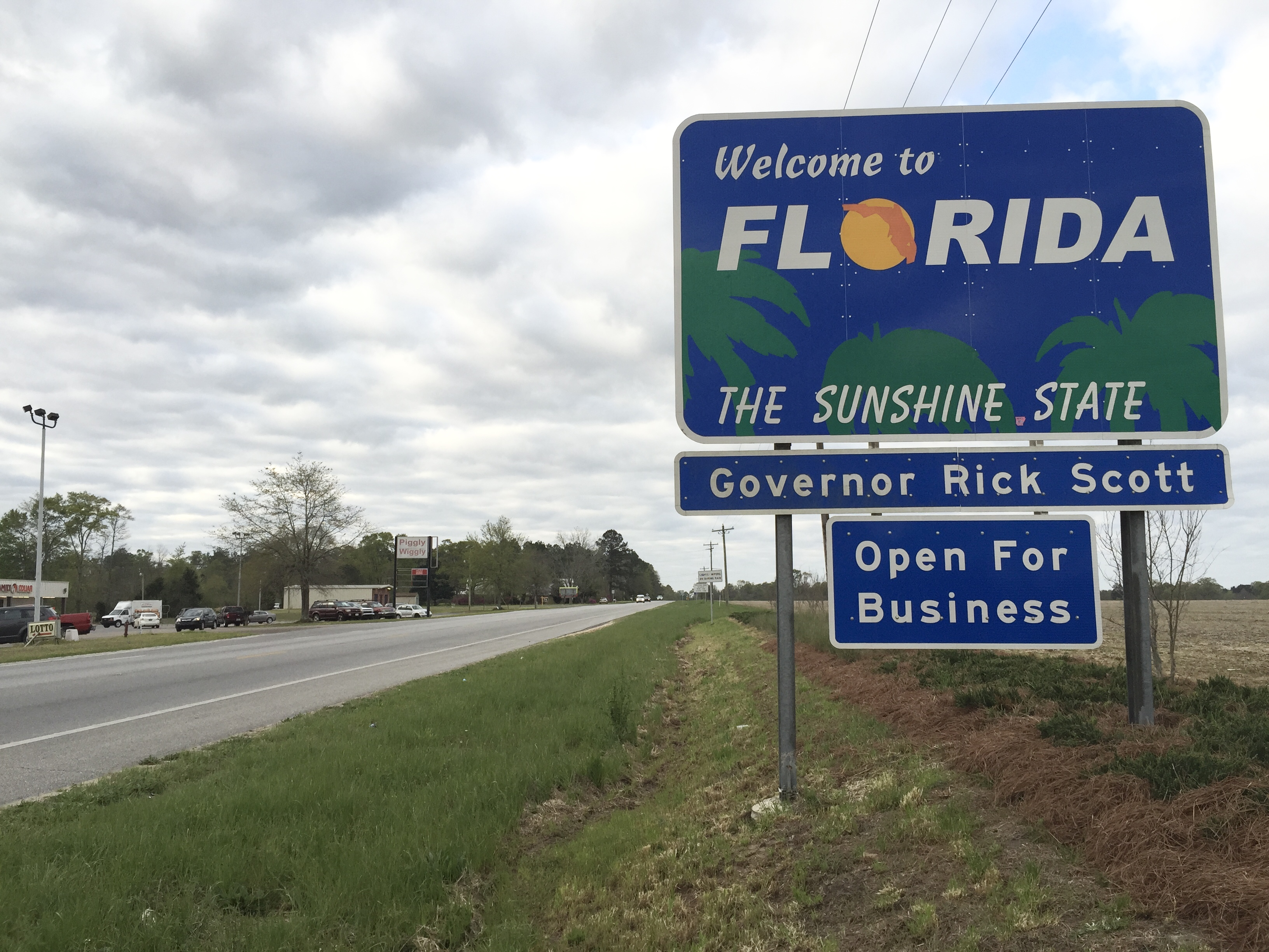 "Welcome to Florida" sign along southbound Florida State Route 97 entering Escambia County, Florida from Atmore, Alabama